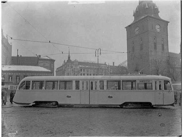 A Gullfisk tram at Stortorvet in Oslo, Norway